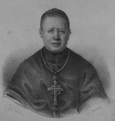 Félix Torres Amat or Félix Torres i Amat de Palou (6 August 1772 – 29 December 1849) was a Spanish Bishop. He translated the Sagrada Bible into Spanish.